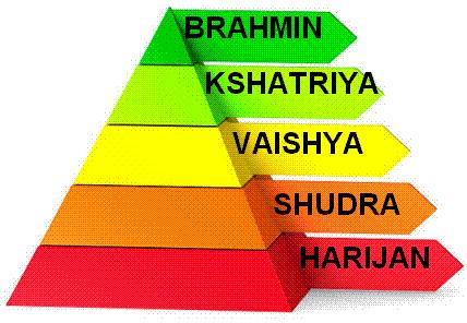 Caste system in India